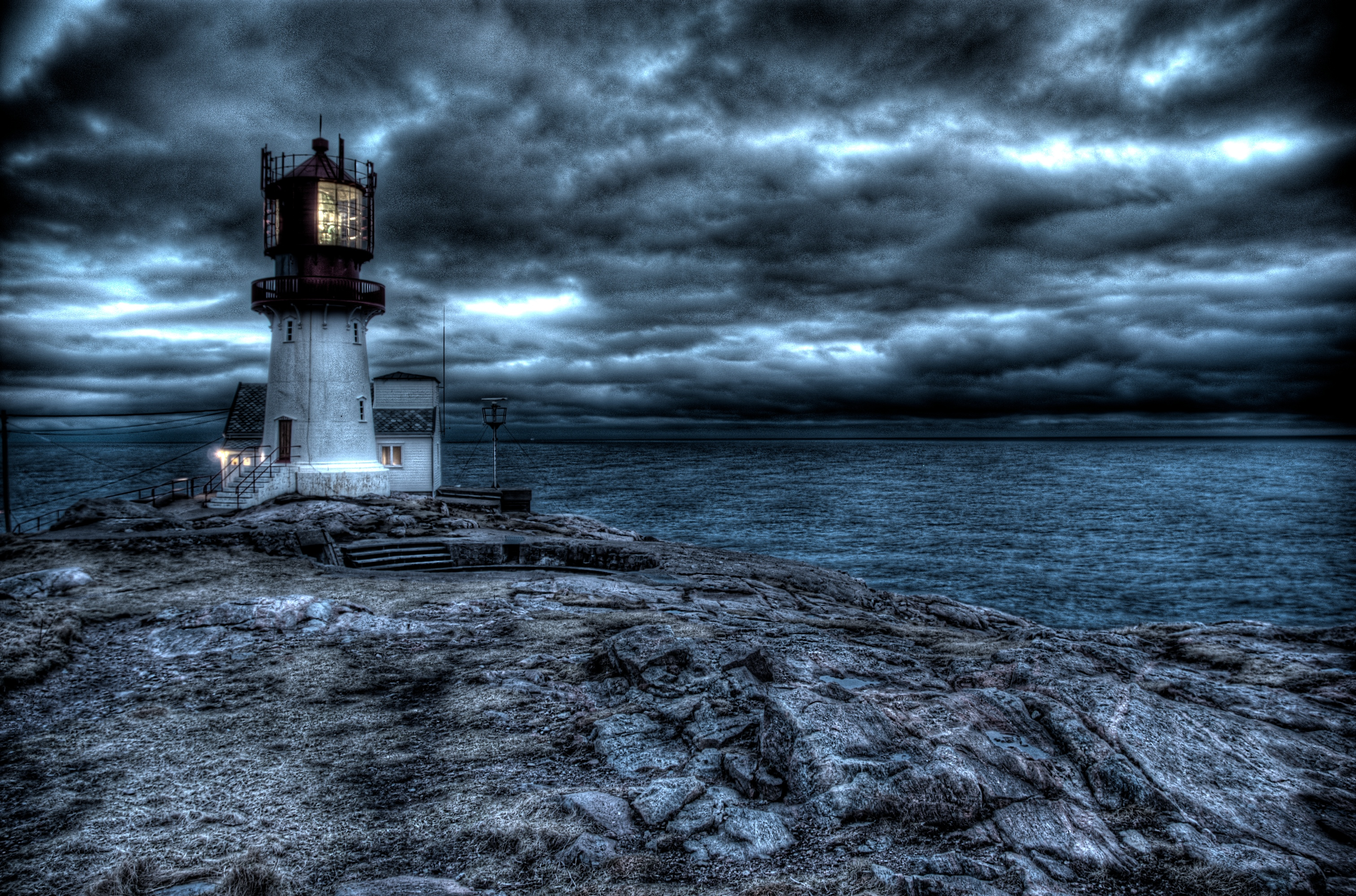 Lindesnes LighthouseNorsk bokmål: Lindesnes fyr